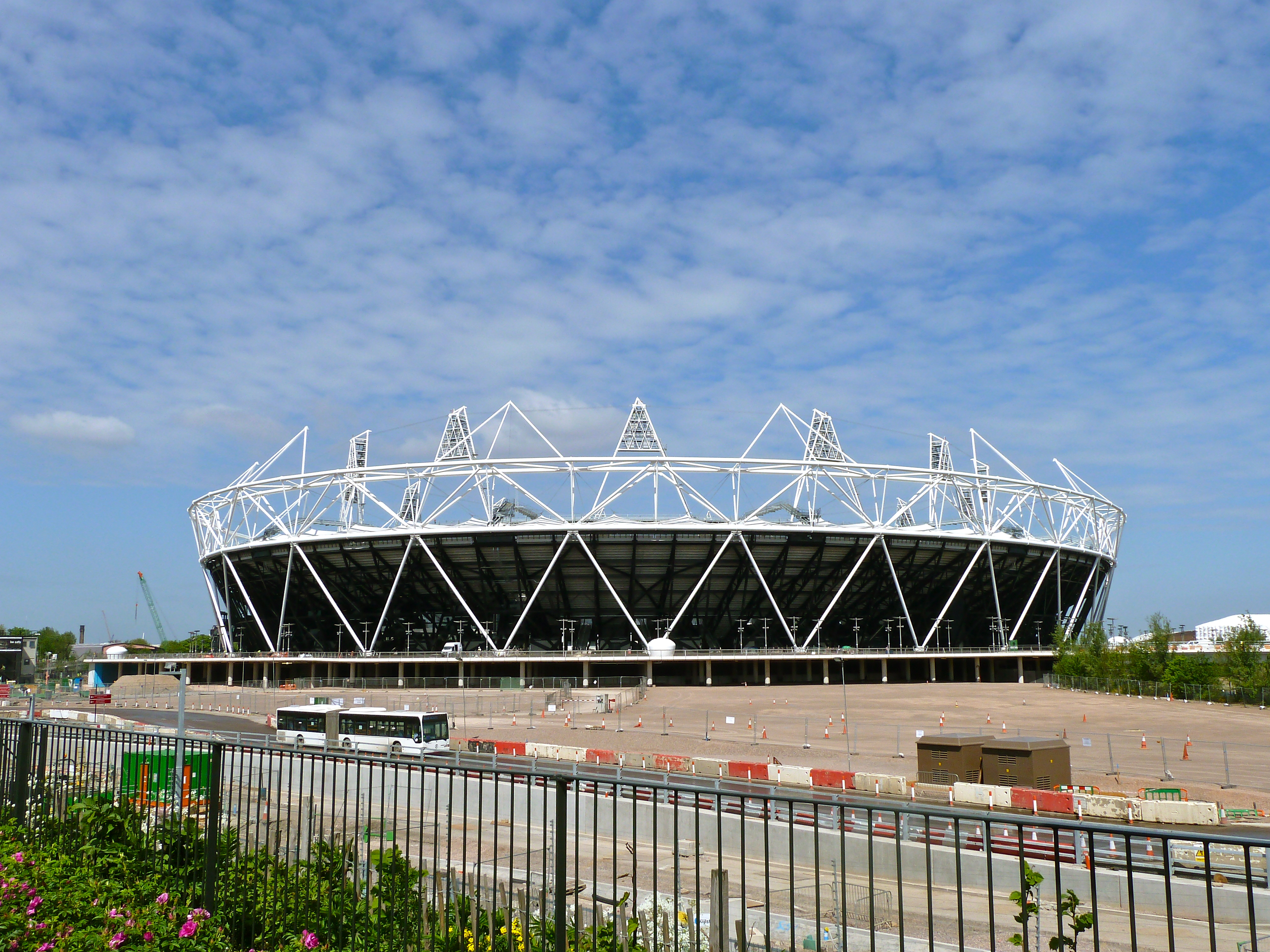 London 2012 Olympic Stadium